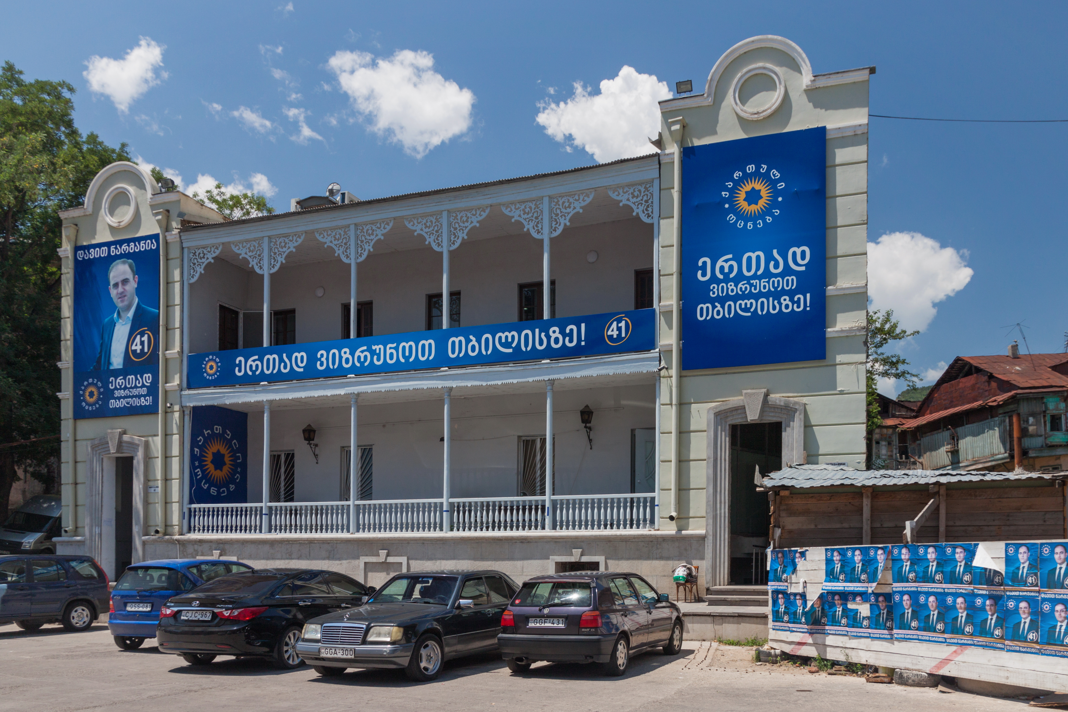 Election posters of Georgian Dream political party. Georgian local elections, 2014. Tbilisi, Georgia.